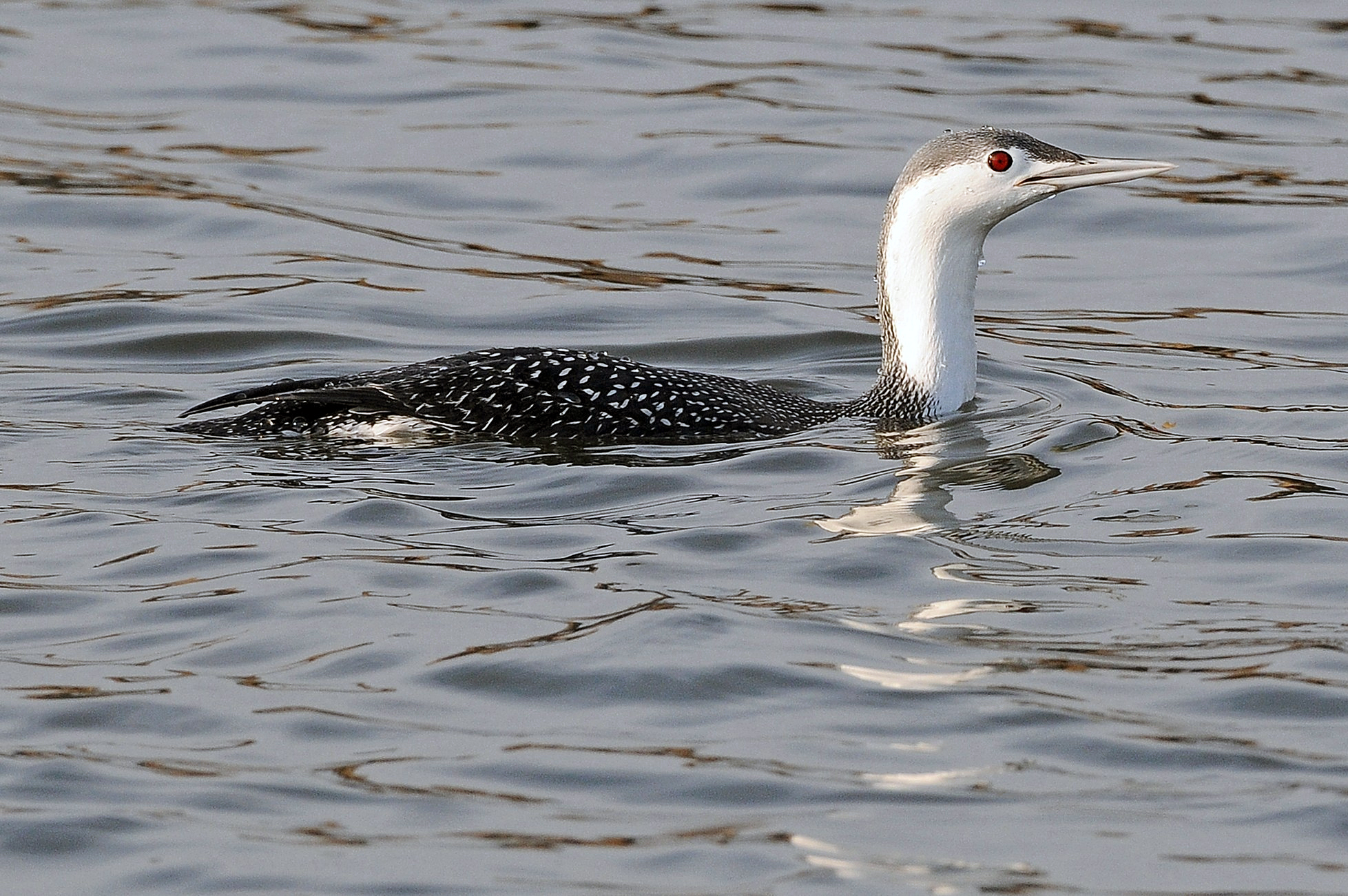 Red-throated Loon (also known as the Red-throated Diver) at Browns Point Marina, Keyport, New Jersey, USA in February 2009.